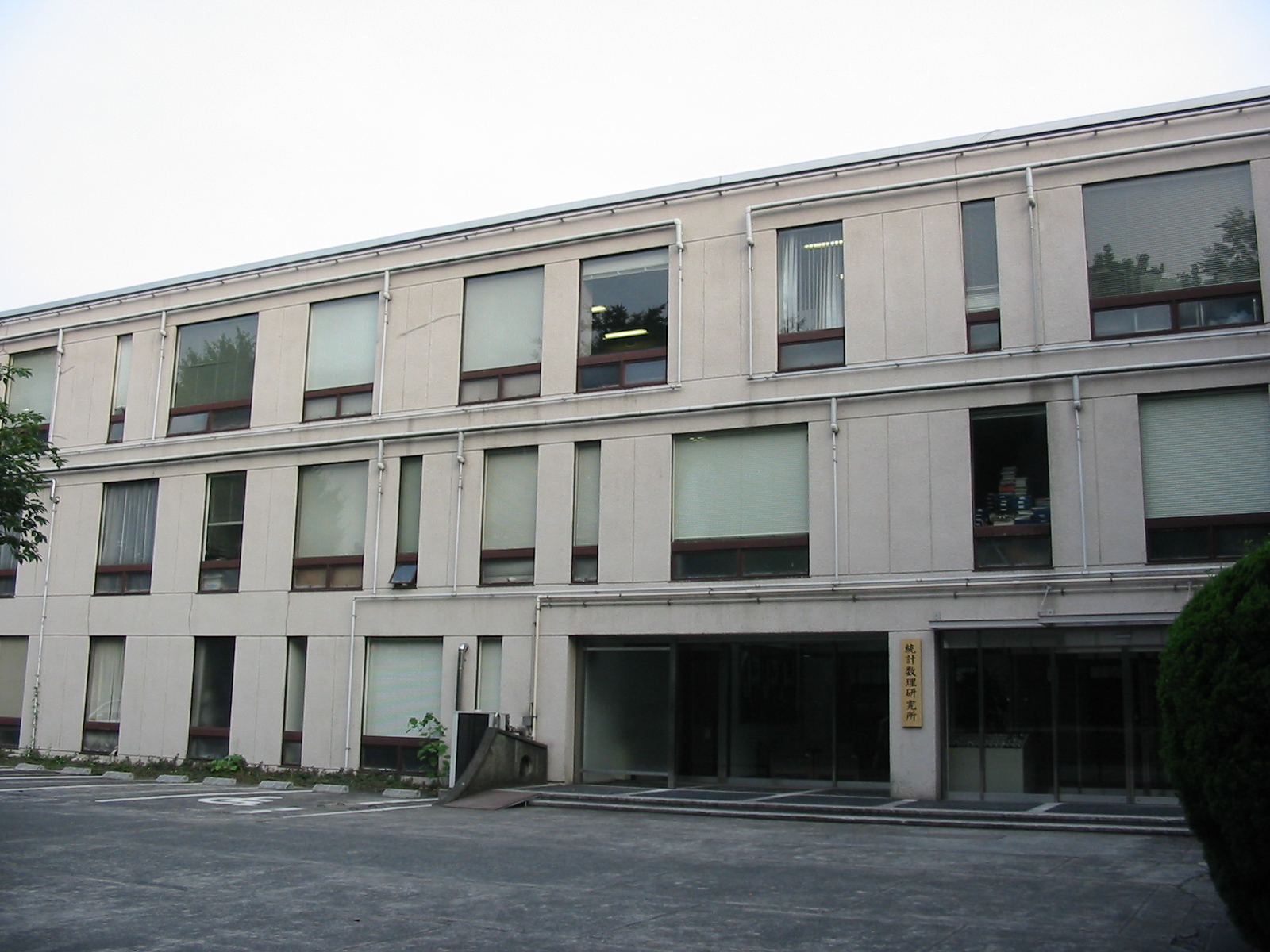 The Institute of Statistical Mathematics, Minami-Azabu, Minato, Tokyo, Japan